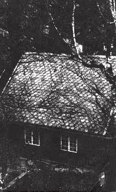 With sketch-map indicating the position of the house, sent by Wittgenstein to Moore, October 1936.